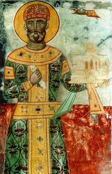 A medieval fresco of the Georgian King David IV from Gelati Monastery